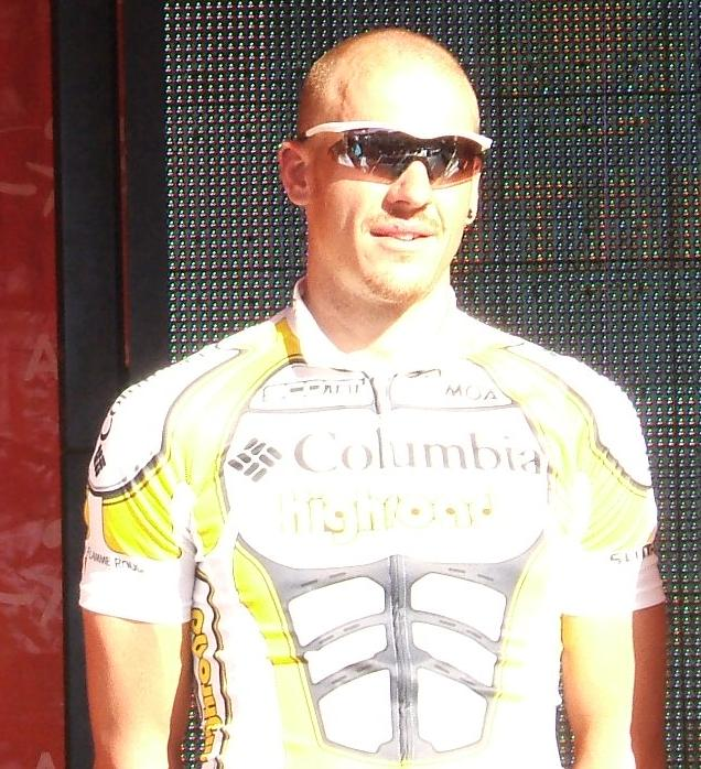 Named cyclist at the en:2009 Tour Down Under team presentation